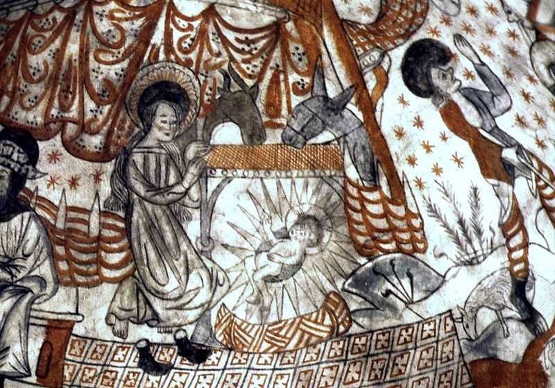 Frescoes by The Isefjord Master from apr. 1460-1480 in Tuse Kirke (church)